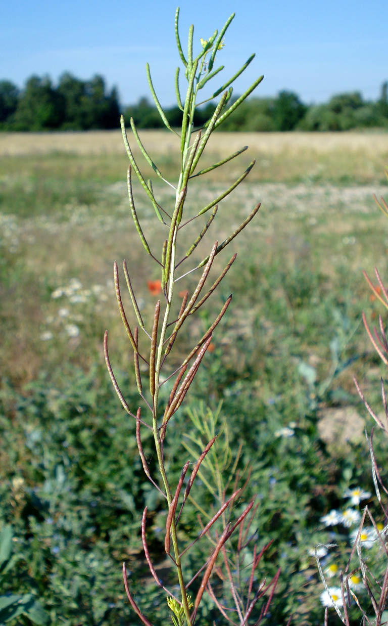 Descurainia sophia (Unterfranken, Germany)